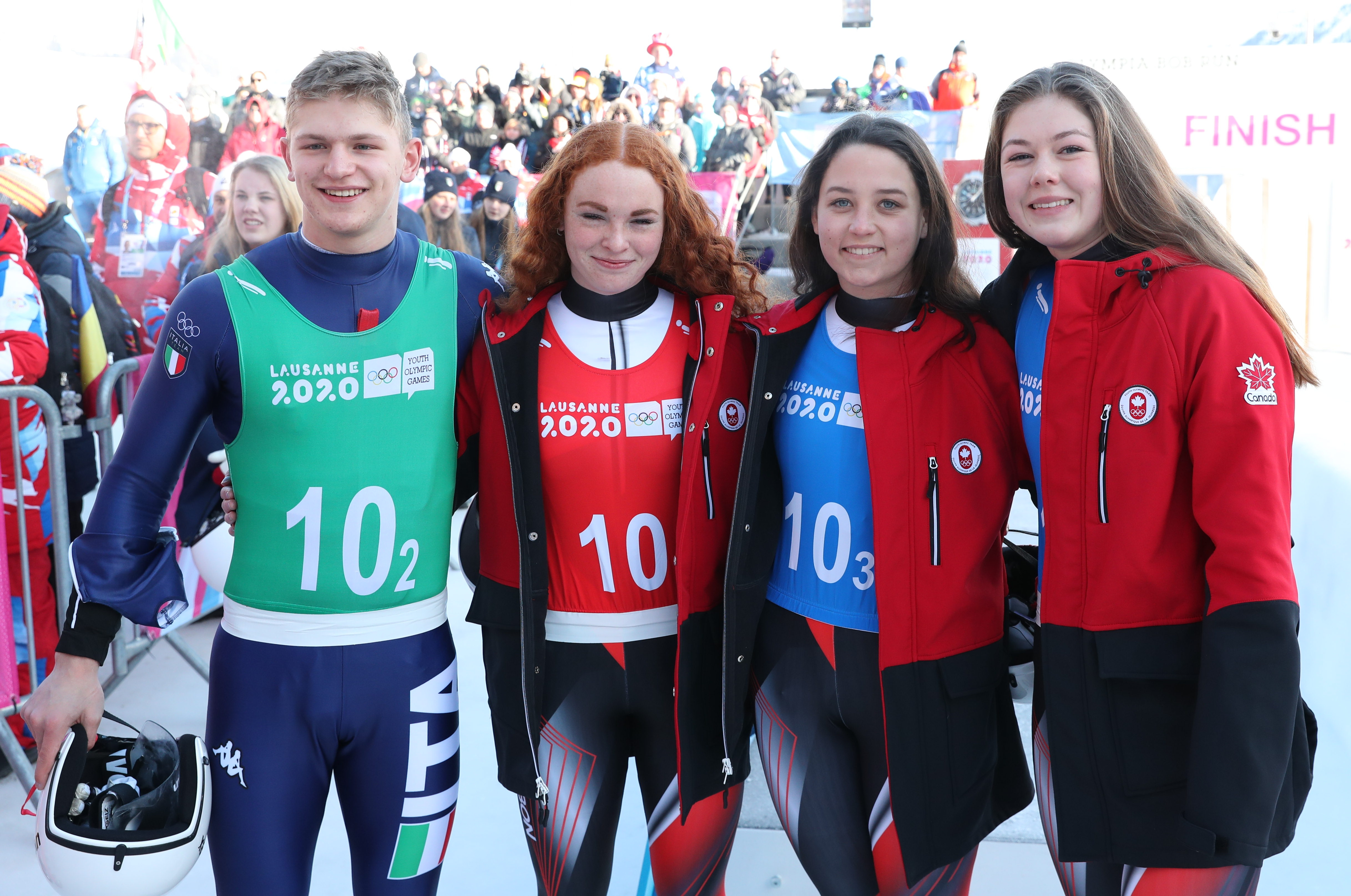 Luge Team Relay at the 2020 Winter Youth Olympics in Lausanne